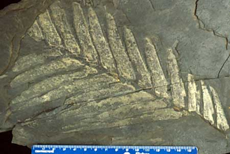 B. R. Speer, photo of leaf holotype from the UCMP paleobotanical collection. Specimen collected by Wieland in 1929 from Jurassic rock of the Hetch Hetchy Valley, Tuolumne Co., California.